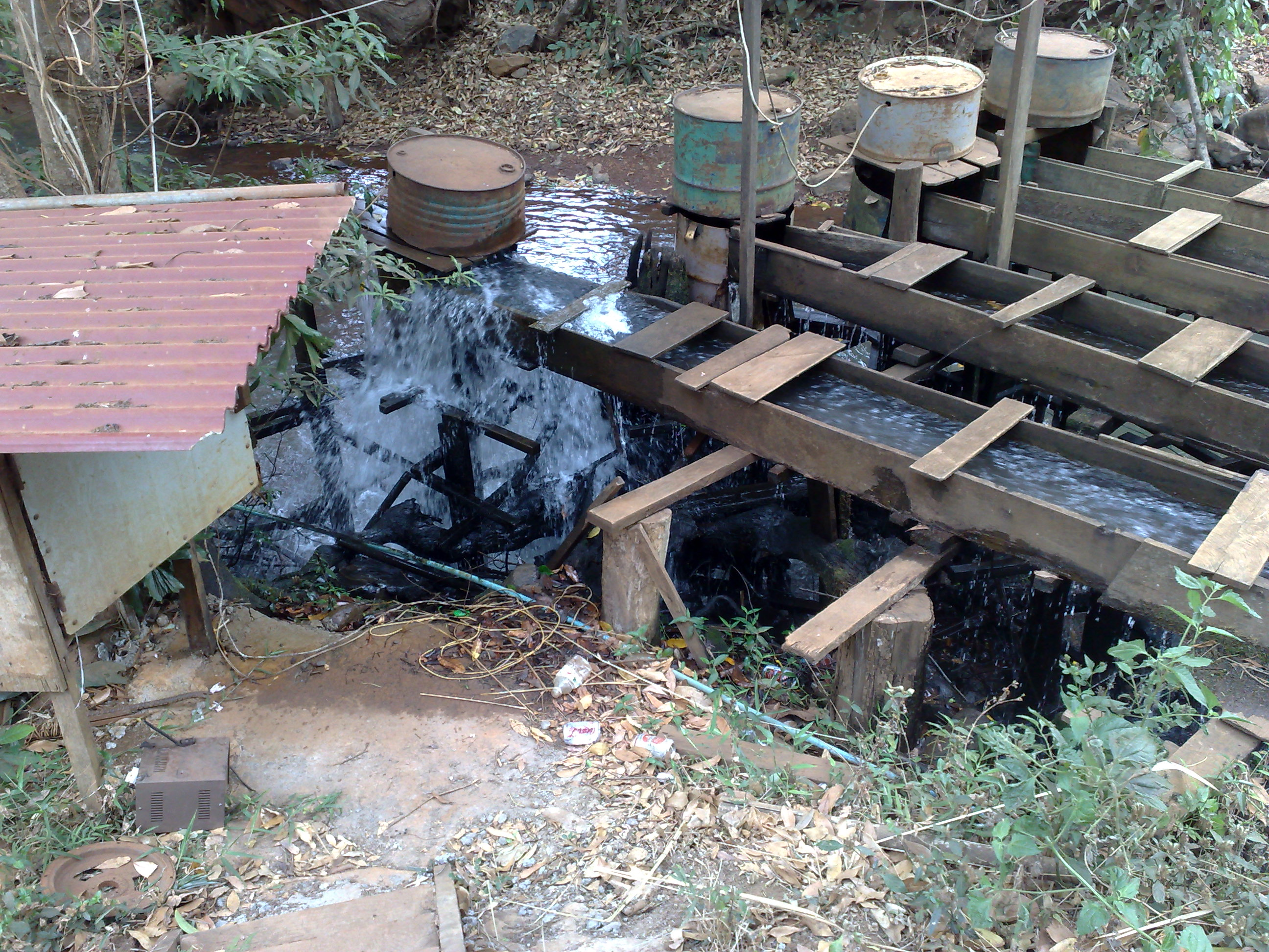 Amateur hydroelectricity setup near the town of Sen Monorom in Cambodia's eastern Mondulkiri province. Picture taken on 16 March 2011.